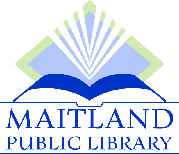 MPL logo